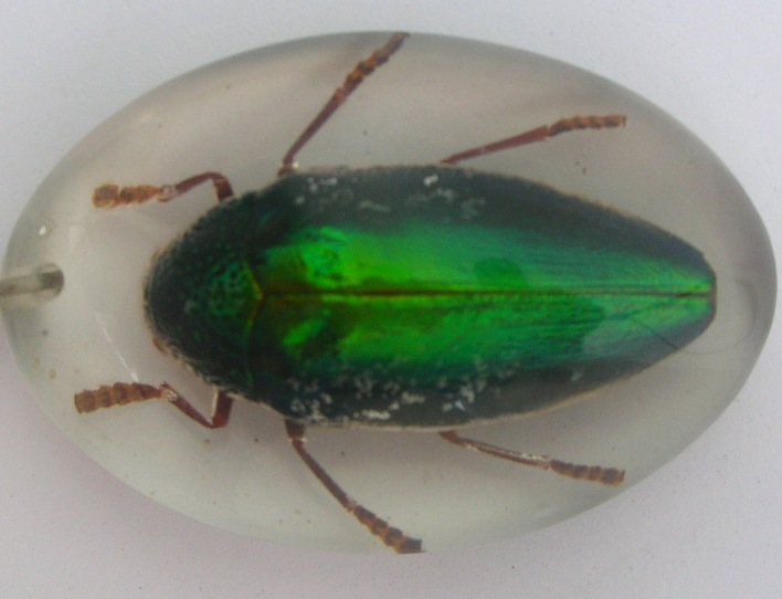 Sternocera aequisignata แมลงทับ, a beetle used in Thailand for beetlewing decoration